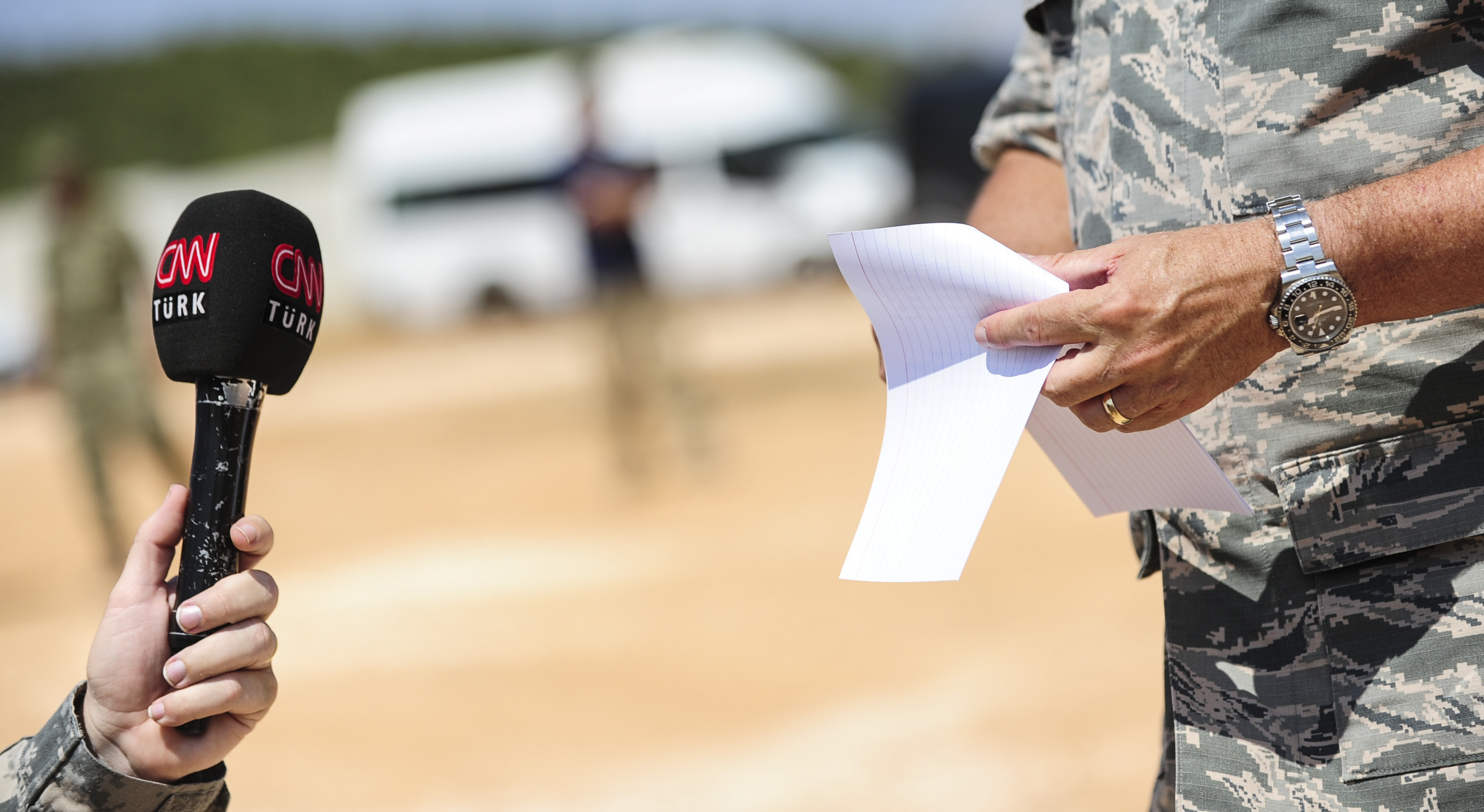 U.S. Air Force Gen. Philip M. Breedlove, NATO’s Supreme Allied Commander Europe and commander of U.S. European Command, gives his opening remarks during a press conference July 31, 2014, Gaziantep, Turkey. Before his visit to Gaziantep, Breedlove visited NATO service members at Incirlik Air Base, Turkey. (U.S. Air Force photo by Senior Airman Nicole Sikorski/Released)